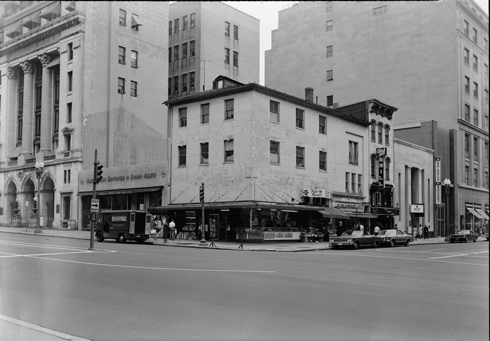 GENERAL VIEW, LOOKING NORTHEAST (CLOSER VIEW) (1967) HABS DC, WASH,512-2